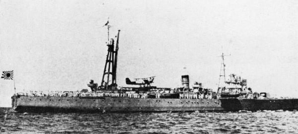 IJN minelayer OKINOSHIMA, official photo published in 1942.